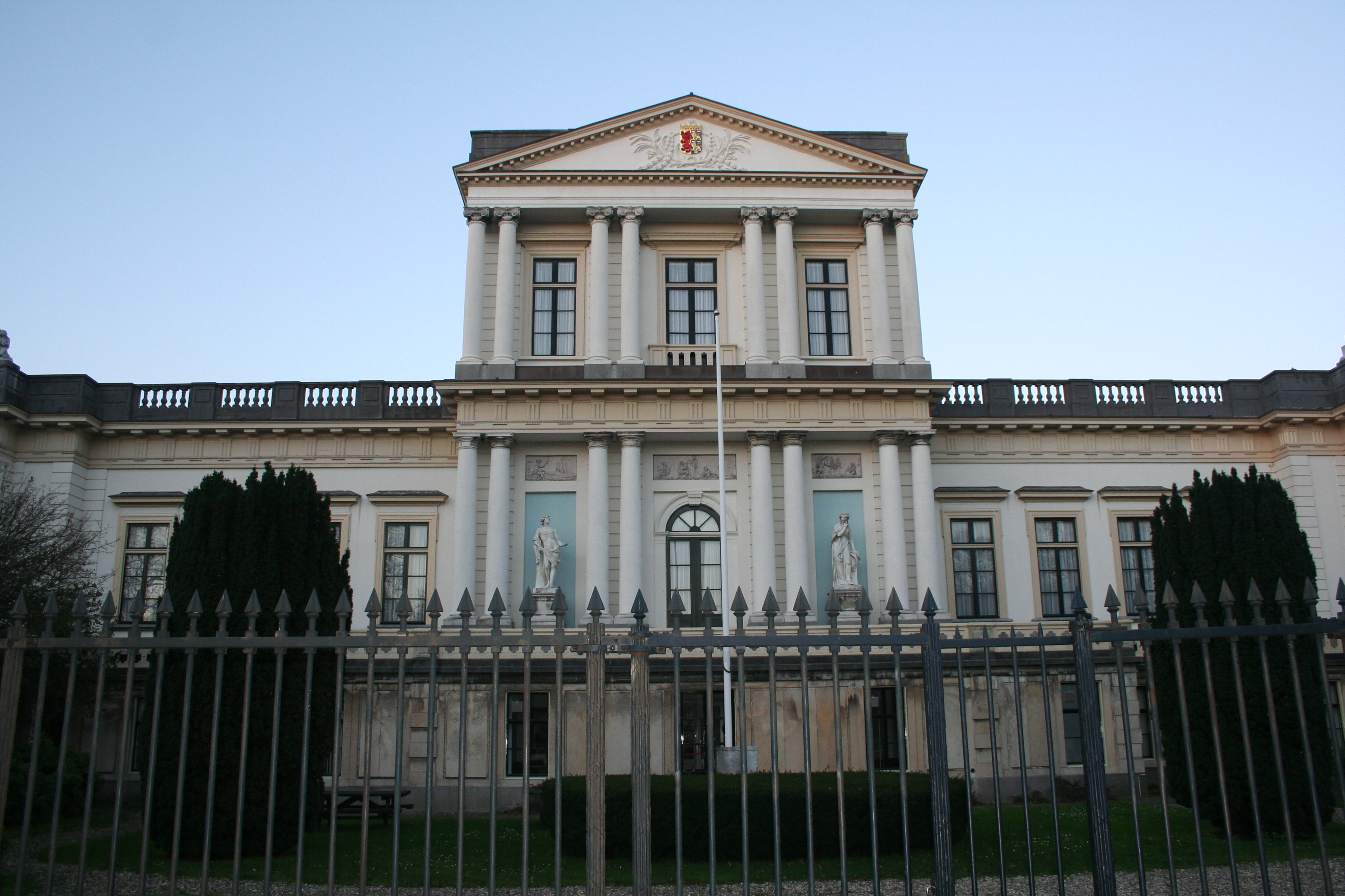 Photo of Villa Welgelegen before the restoration activities of 2009. During restoration, the original top story with glass windows was put back in place, which lends much more height to the building and restores the original facade.